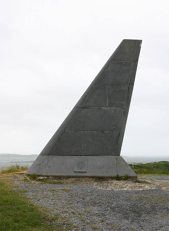 Description: This memorial honours the achievement of John Alcock and Arthur Whitten-Brown Source: I took this photo myself